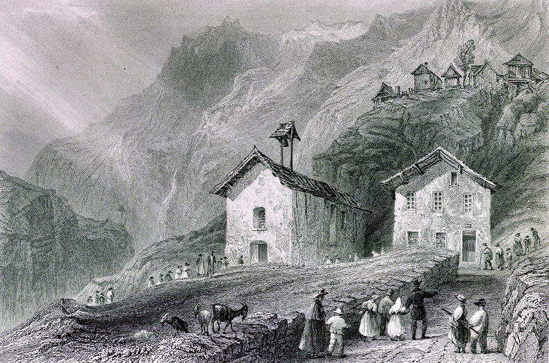 Dormeilleuse - Church ands School of Felix Neff